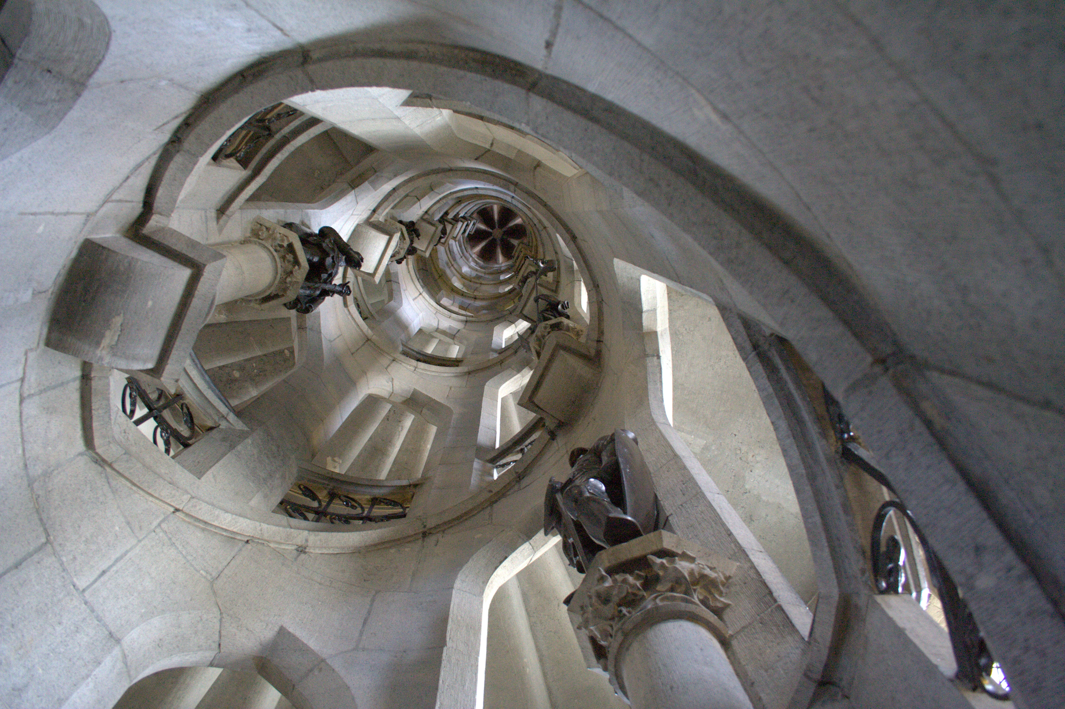 stairs inside the Halle Gate, Brussels, Belgium